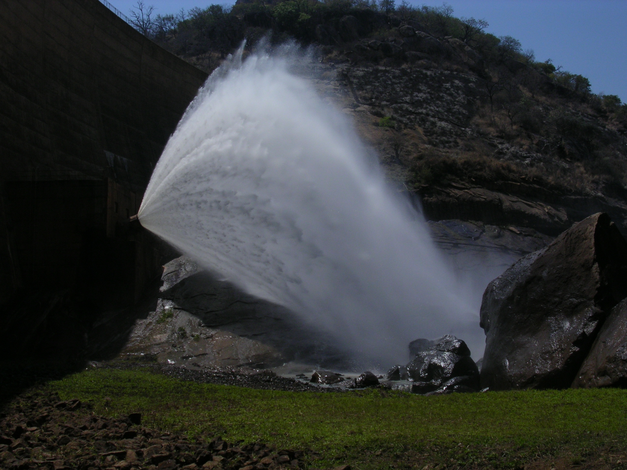 Managed release of water from Manyuchi Dam, Zimbabwe